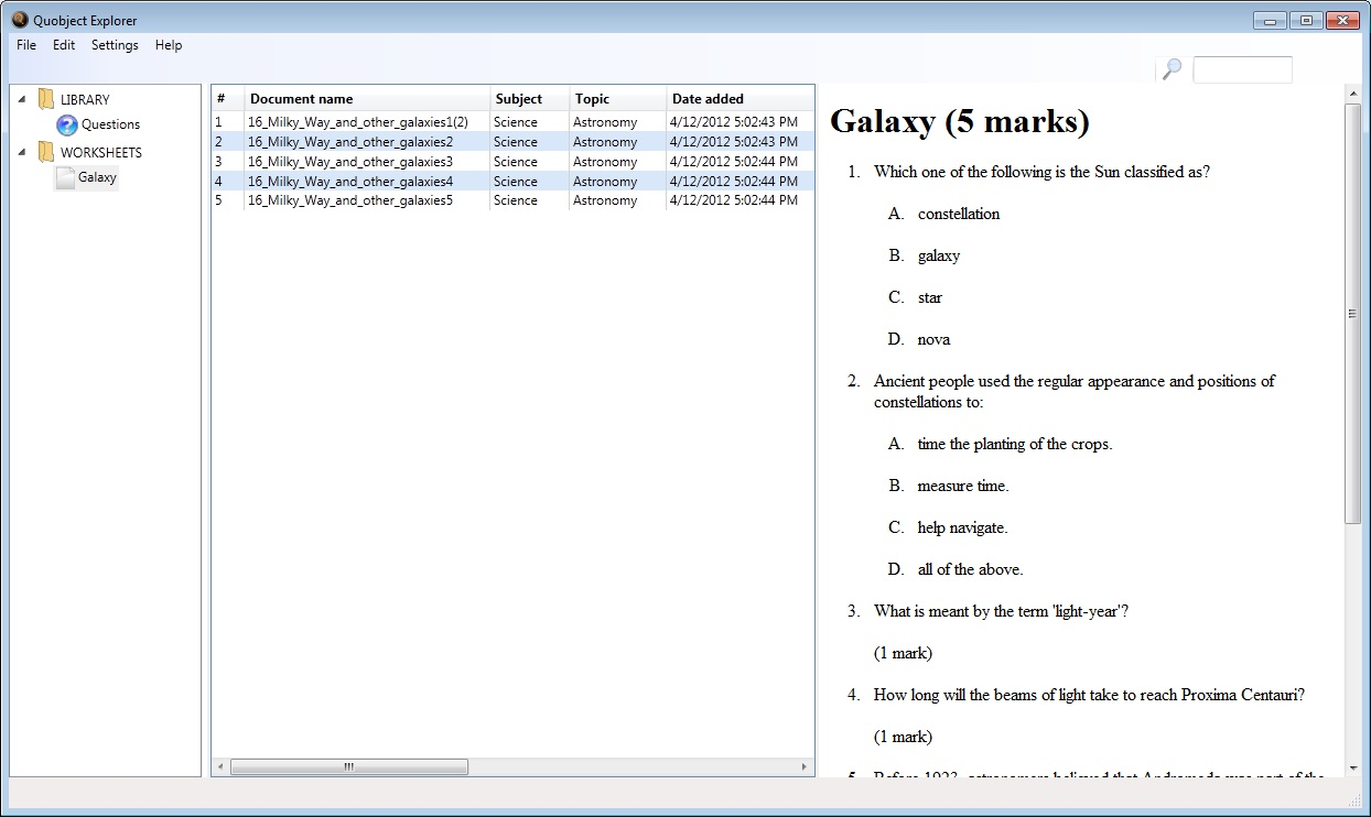 Quobject Explorer is a freeware computer software. It enables rapid creation of worksheets, exams and online quizzes by managing quox files that contain questions and answers packaged together in a single file.